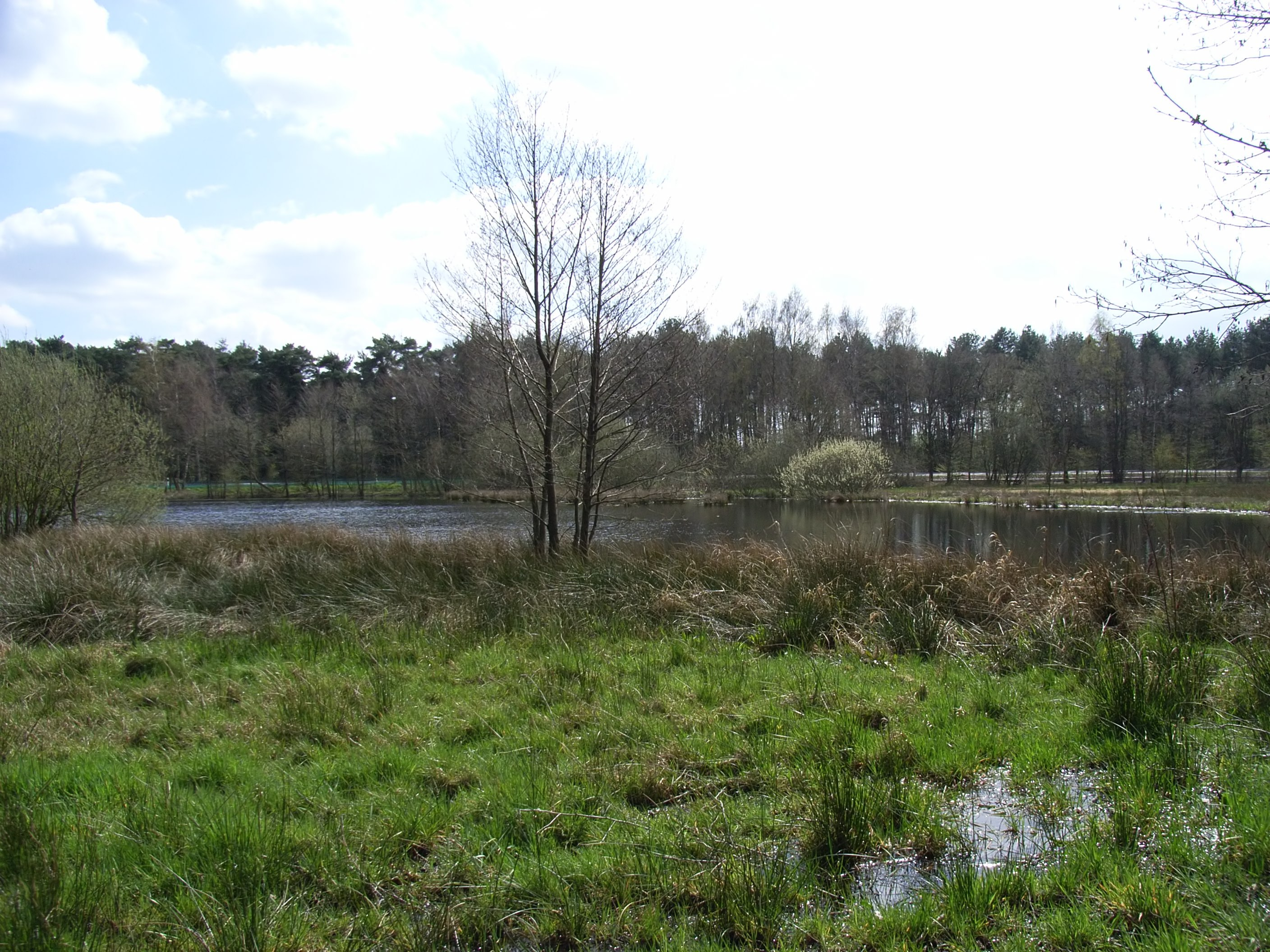 Bielefeld, Germany: Kampeters Kolk.